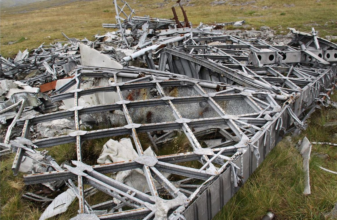 The Wellington bomber which crashed into the southwest slope of Carreg Goch in the Brecon Beacons, during a night-training mission on November 20, 1944 See where this picture was taken. [1]